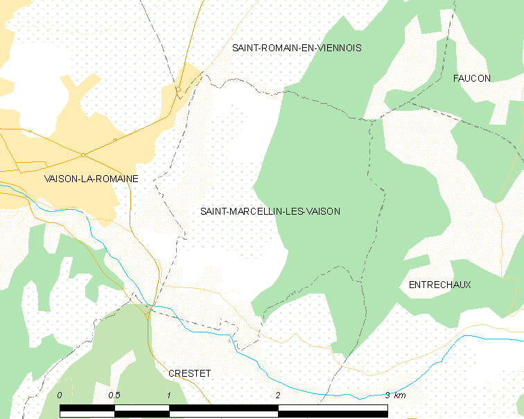 Map of French municipality Saint-Marcellin-lès-Vaison